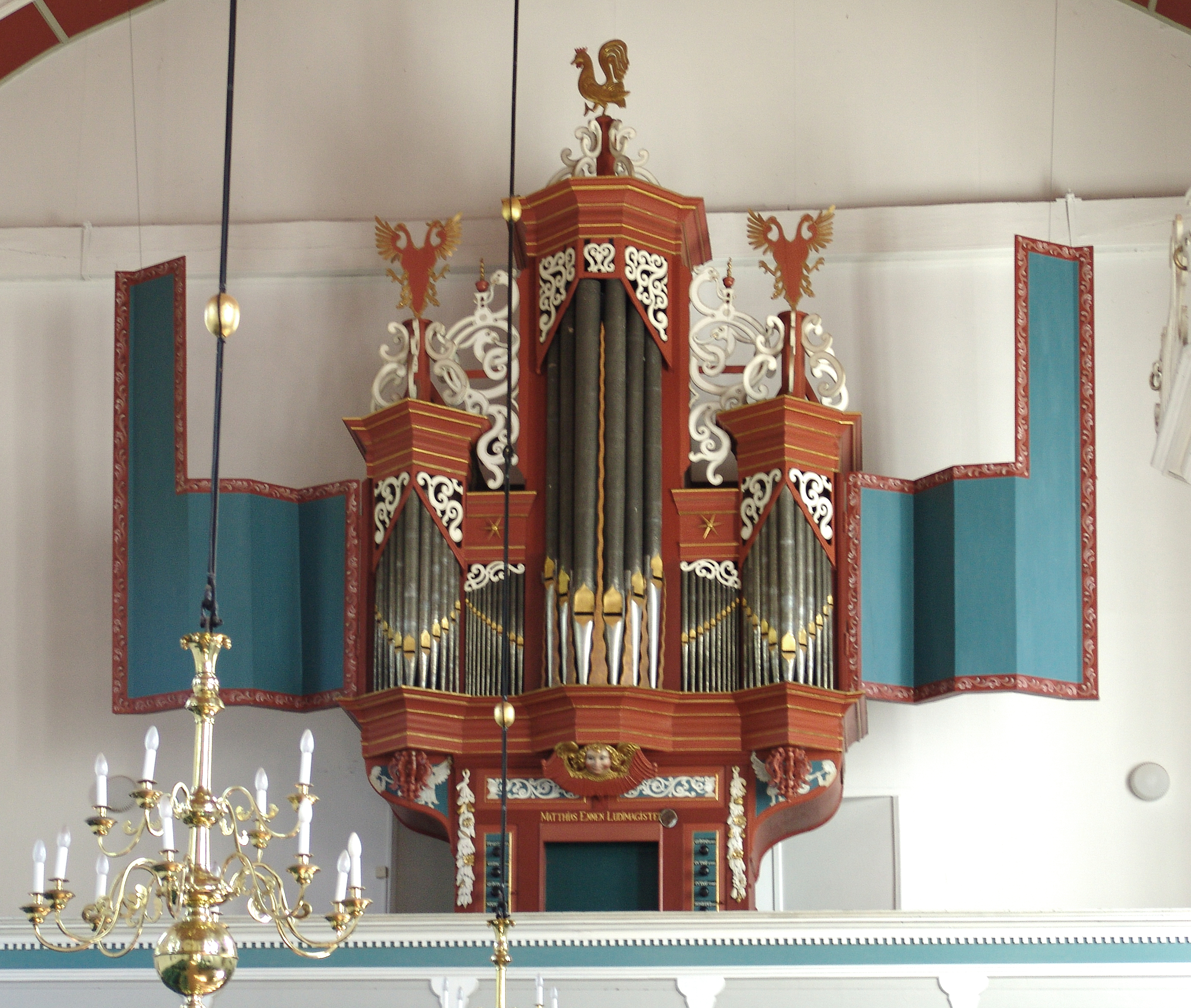 The pipe organ in the Evangelical Reformed Church in Uttum (Krummhörn), Lower Saxony, Germany.